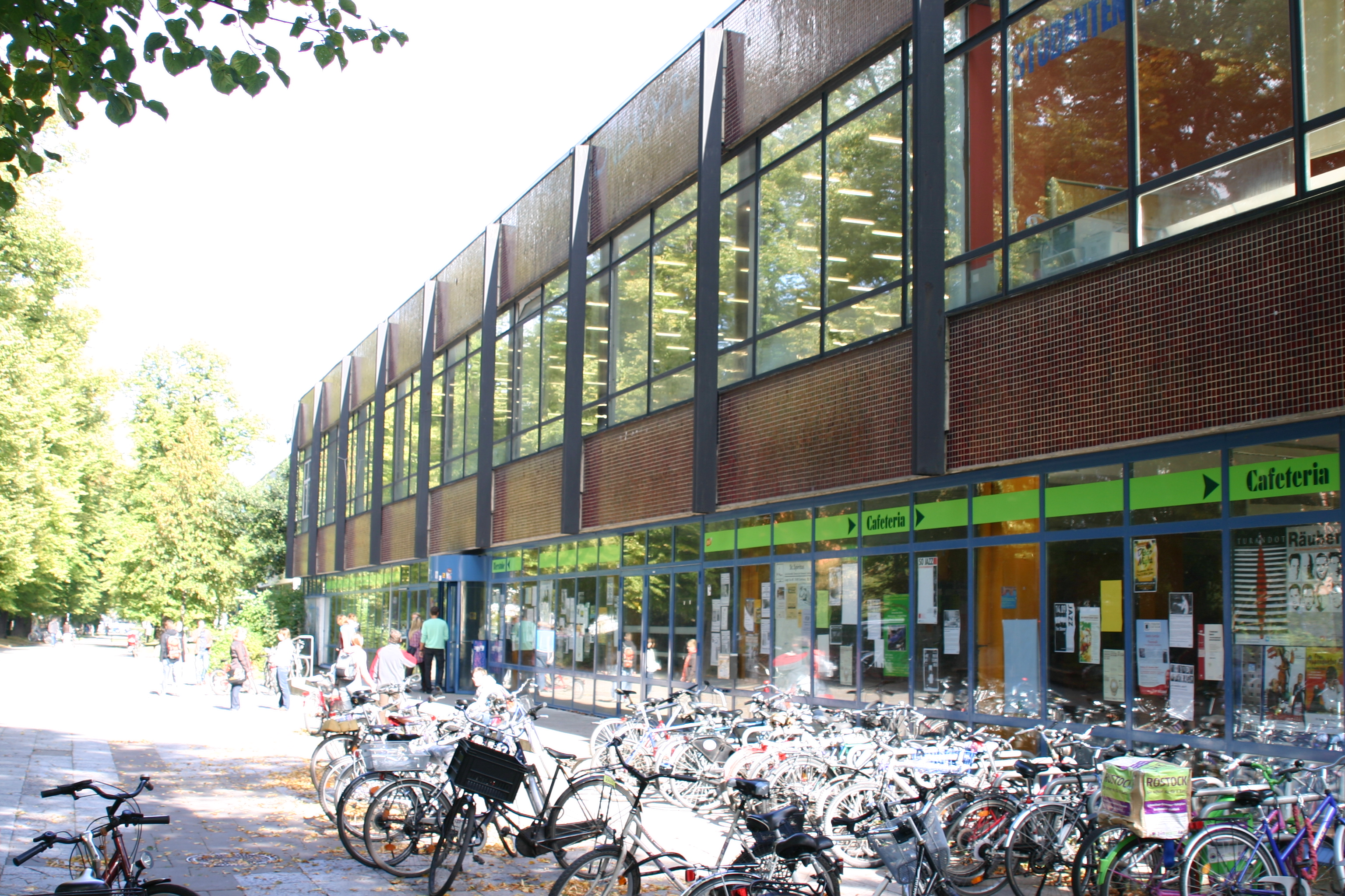 Cafeteria and student restaurant at the University of Greifswald